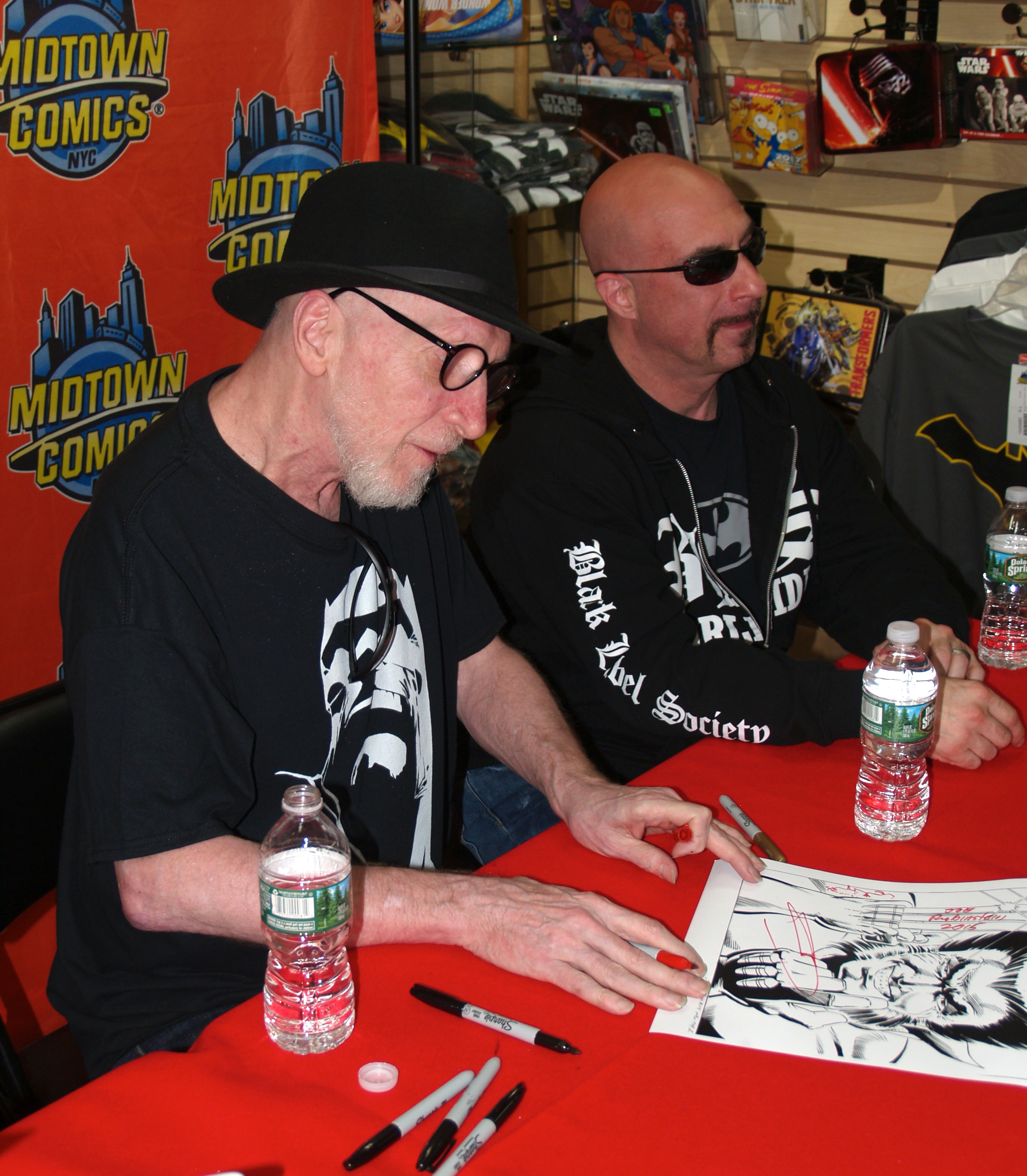 Comics writer/artist Frank Miller sigining a print of his artwork for the cover of Wolverine Vol 1 #1 (1982) during an appearance at Midtown Comics Downtown September 17, 2016, the third annual Batman Day, when DC Comics celebrates the creation of the character Batman. Beside him is artist Greg Capullo. This photo was created by Luigi Novi. It is not in the public domain, and use of this file outside of the licensing terms is a copyright violation.